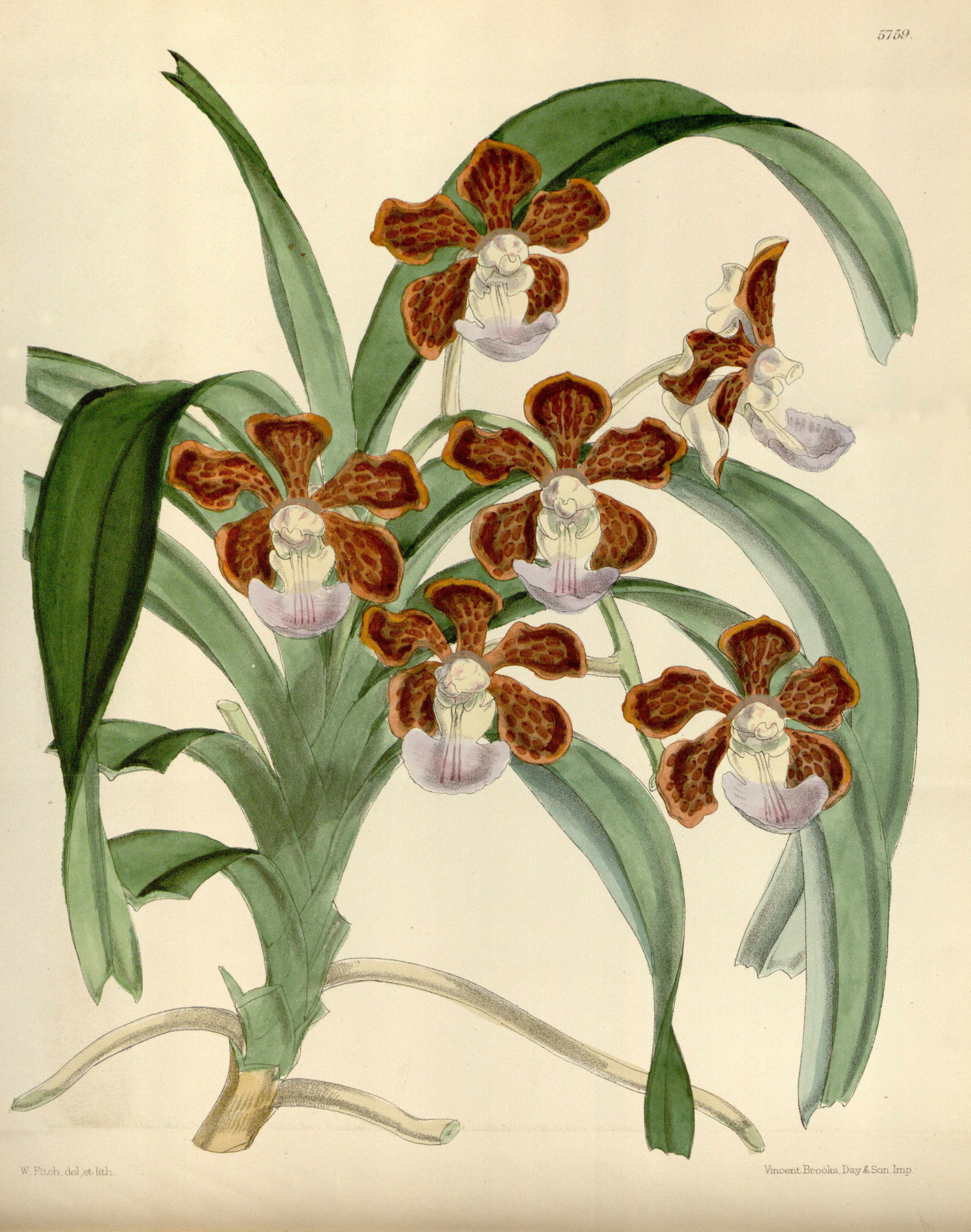 Illustration of Vanda insignis